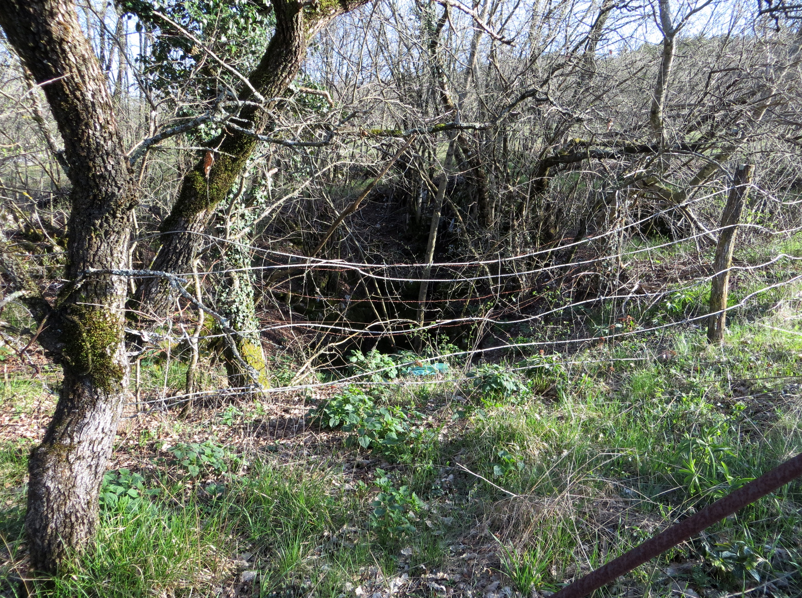 Golobivnica Cave Mass Grave in Prelože pri Lokvi, Municipality of Sežana, Slovenia